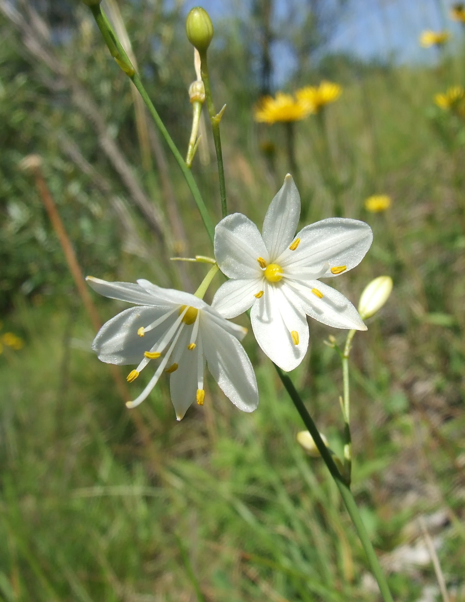 Anthericum ramosum